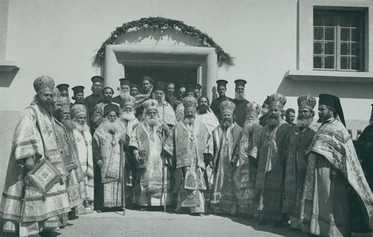 Boris III of Bulgaria in Vidin, Bulgaria